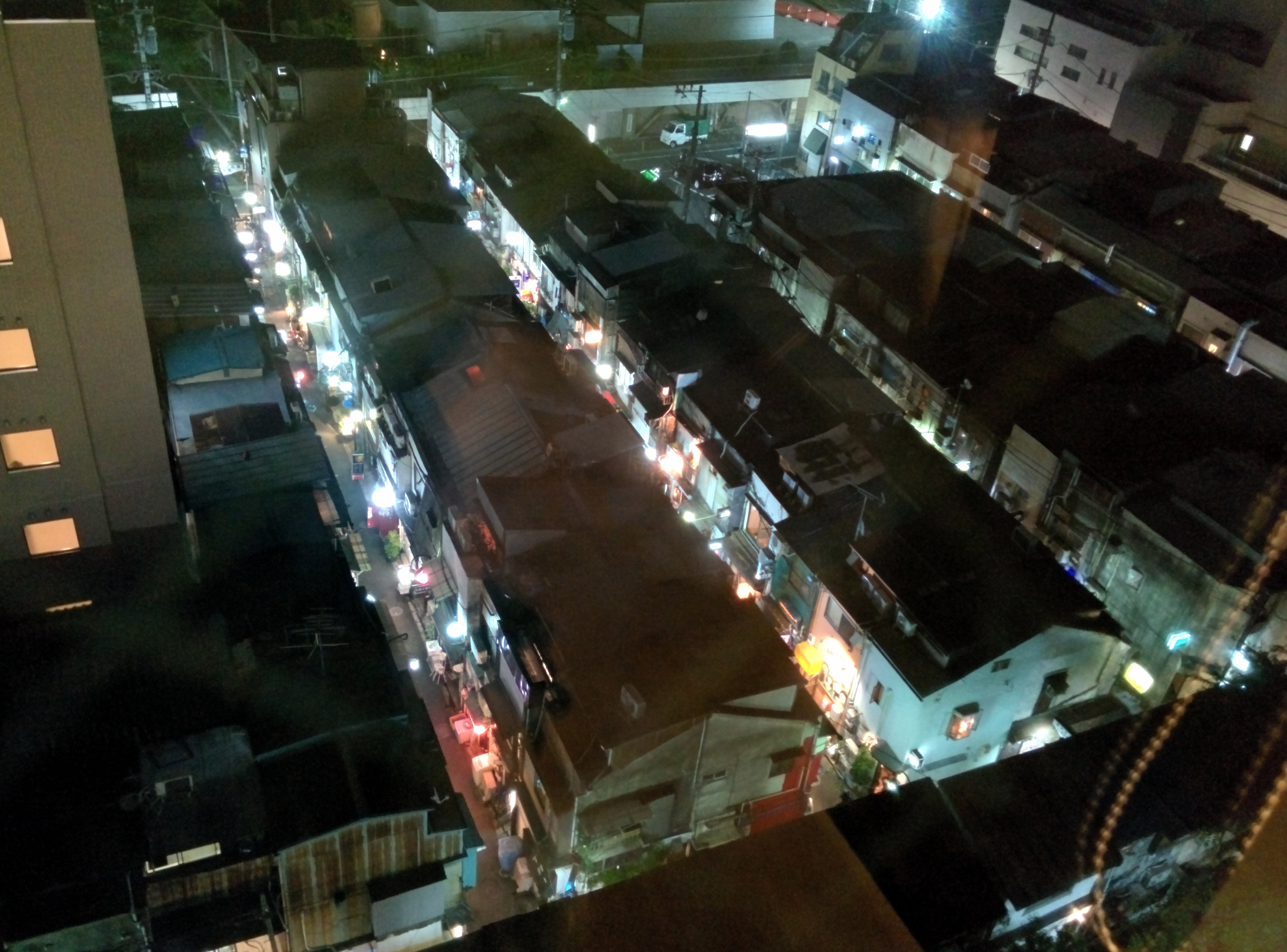 Akarui Hanazono Goban Street, Akarui Hanazono Sanban Street, Akarui Hanazono Ichiban Street and G2 Street are located in Shinjuku Ward, Tōkyō Metropolis.